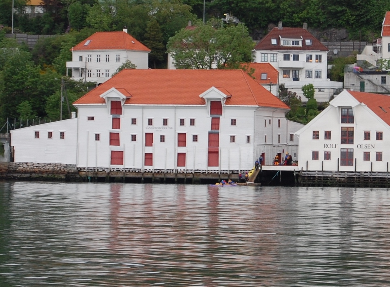 Sandviksboder 78 a-b, Bergen, Norway